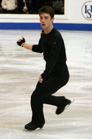 Brian Joubert at the the 2009 World Championships' selection.